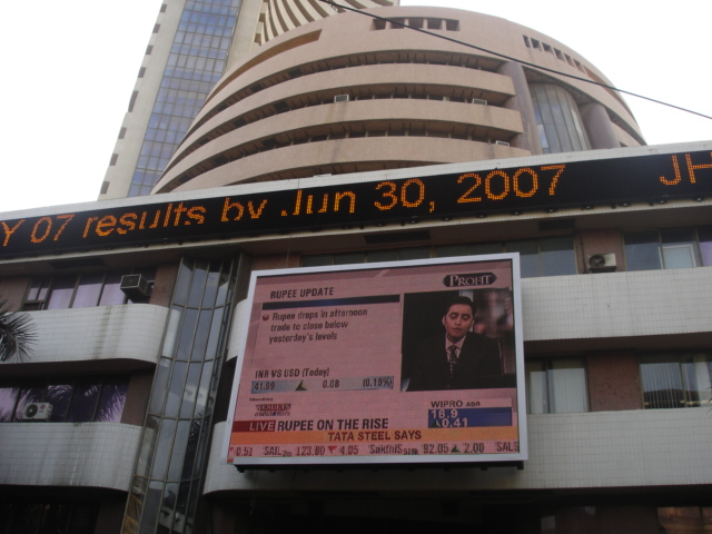 NDTV Profit's Screen at Bombay Stock Exchange. Author : Prateek Shah